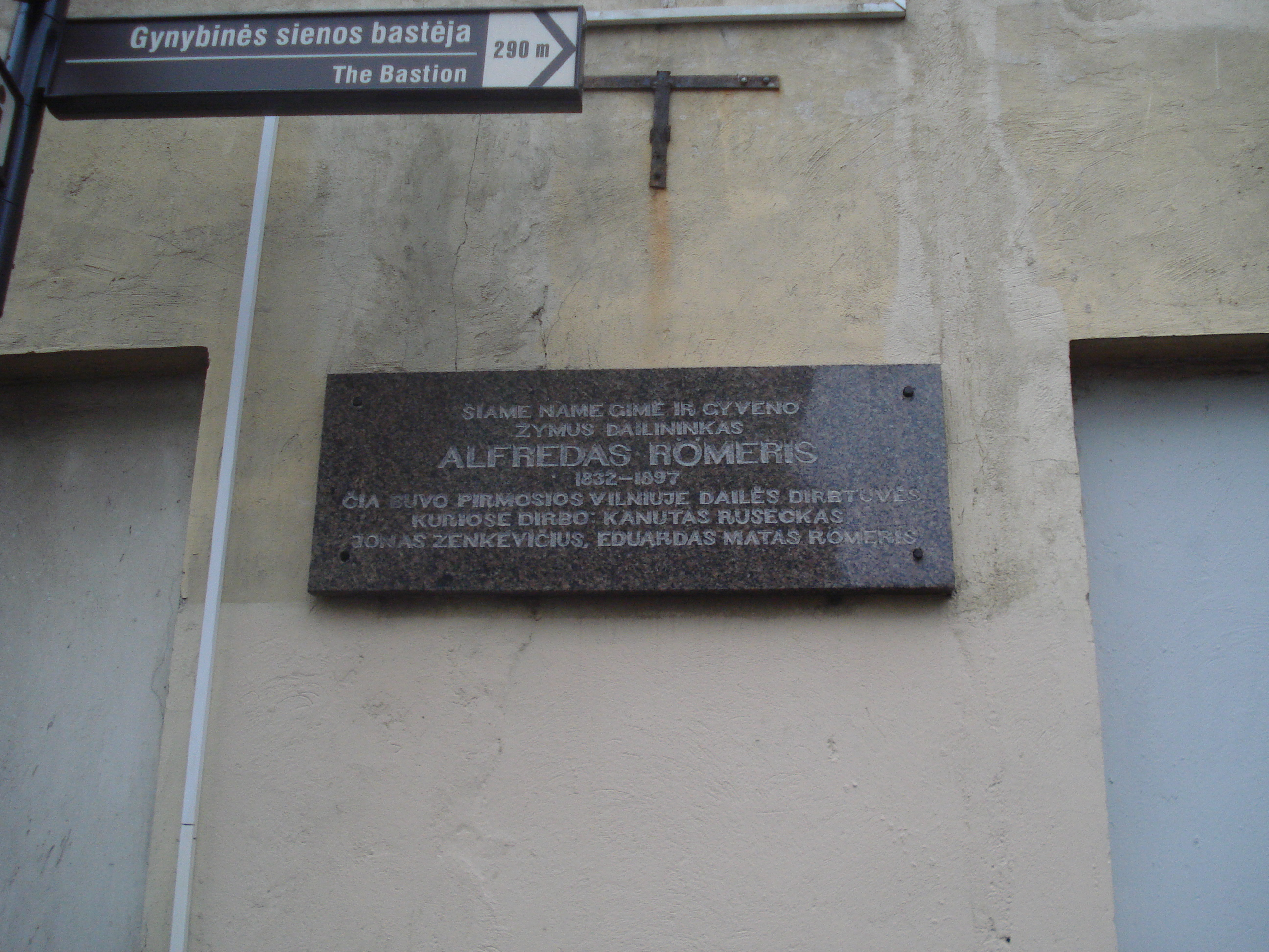 Memorial plaque in Bokshto street (Bokšto gatvė) in Vilnius: in this house born and lived painter Alfred Roemer